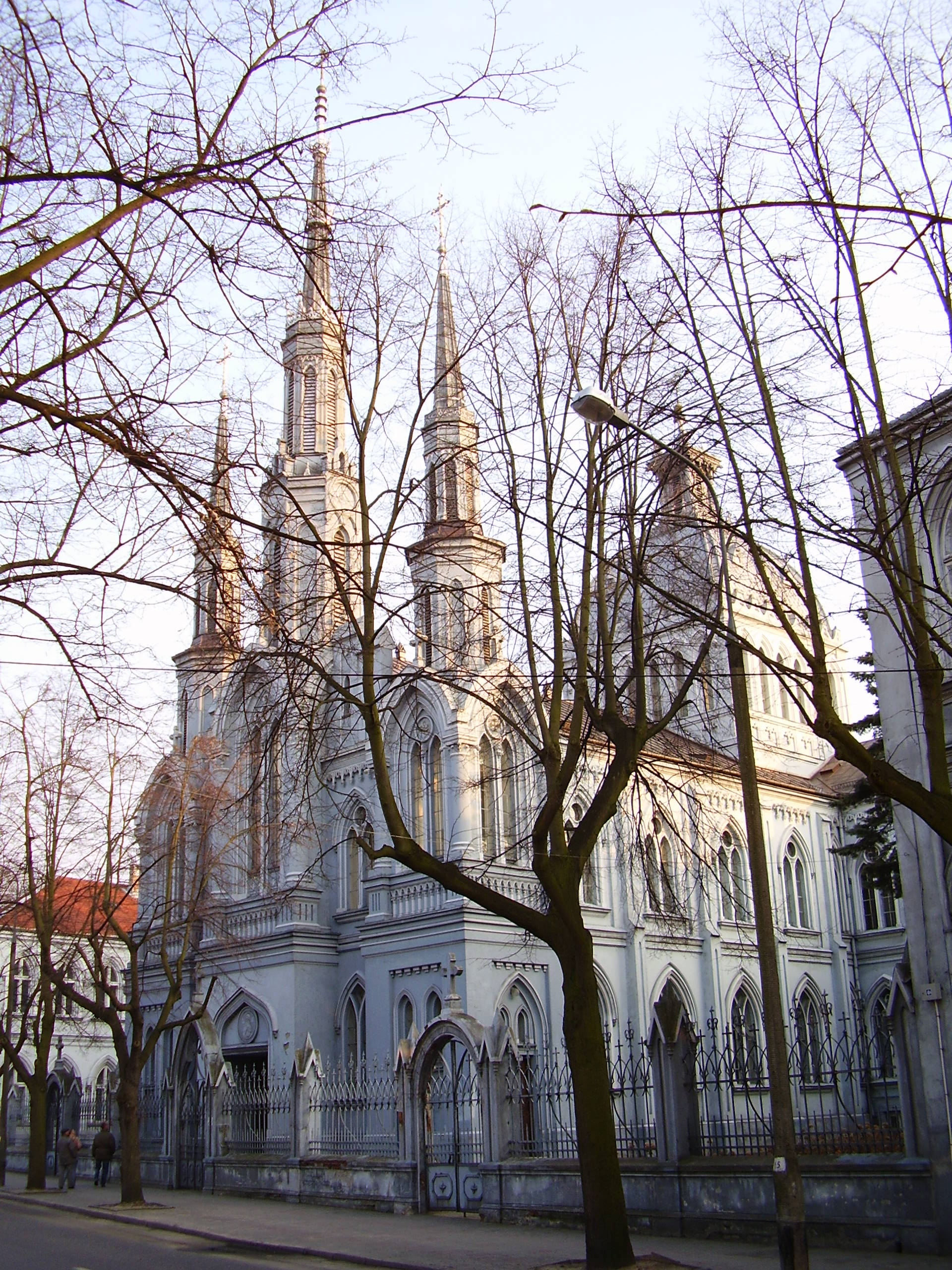 The Mariavite church in Plock Author:R.Castelnuovo (myself) 2006 04 23